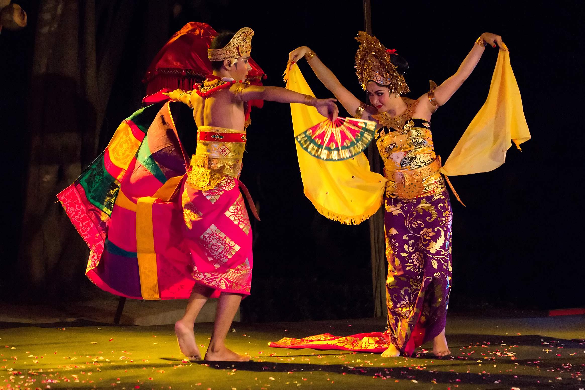 Sanata Dharma University's Sekar Jepun, a Balinese dance troupe, celebrates its 17th anniversary. Here the Oleg dance is performed.